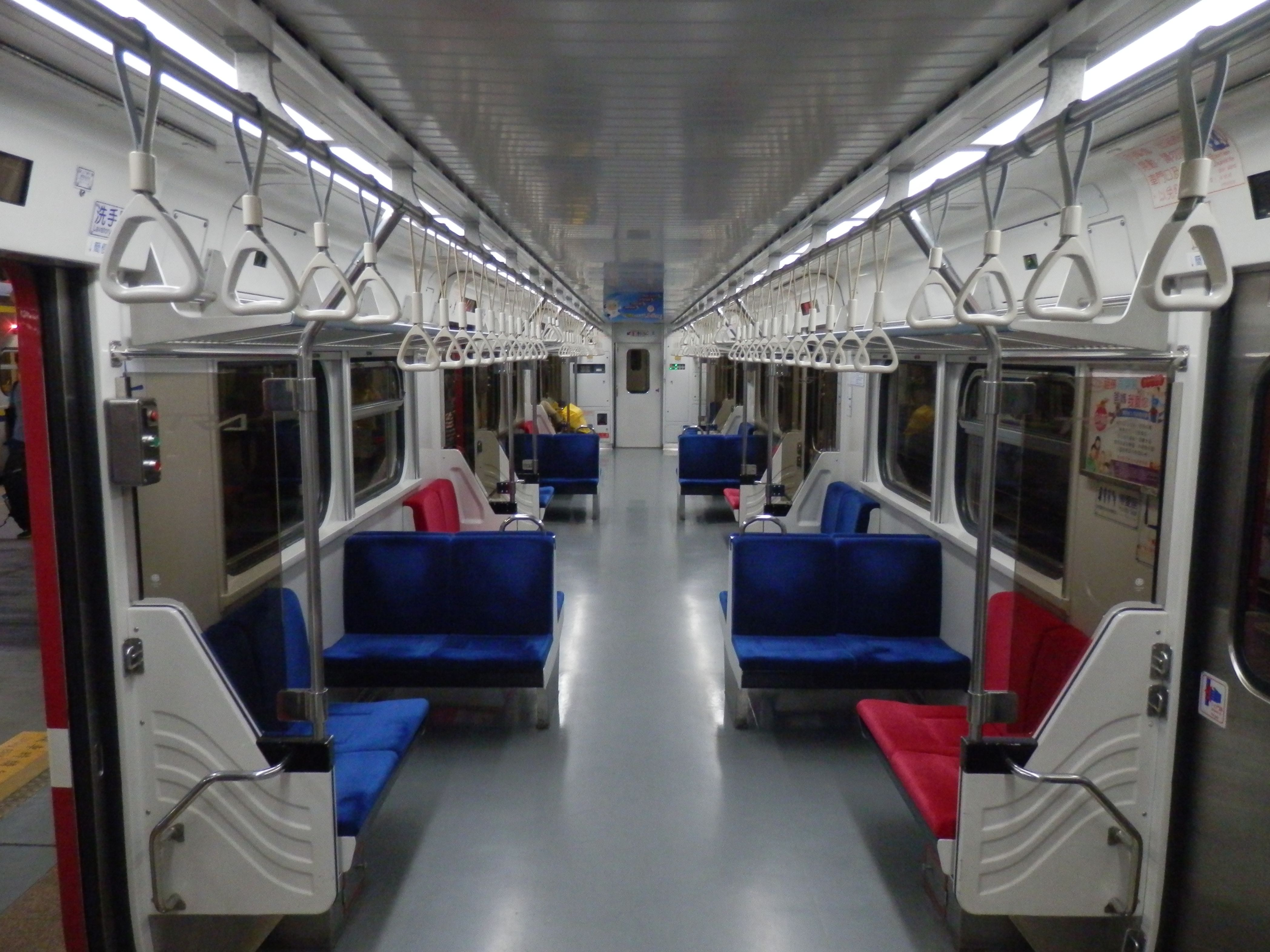 Inside of TRA Type EMU700(Keikyu Color)